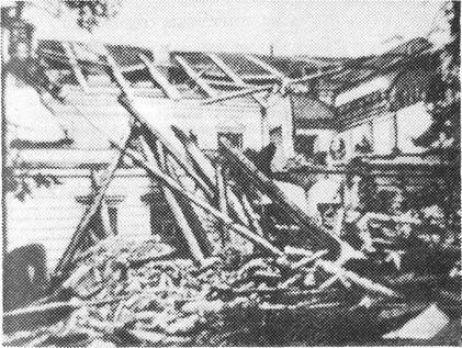 The results of the terrorist attack in the Leontief lane September 25, 1919